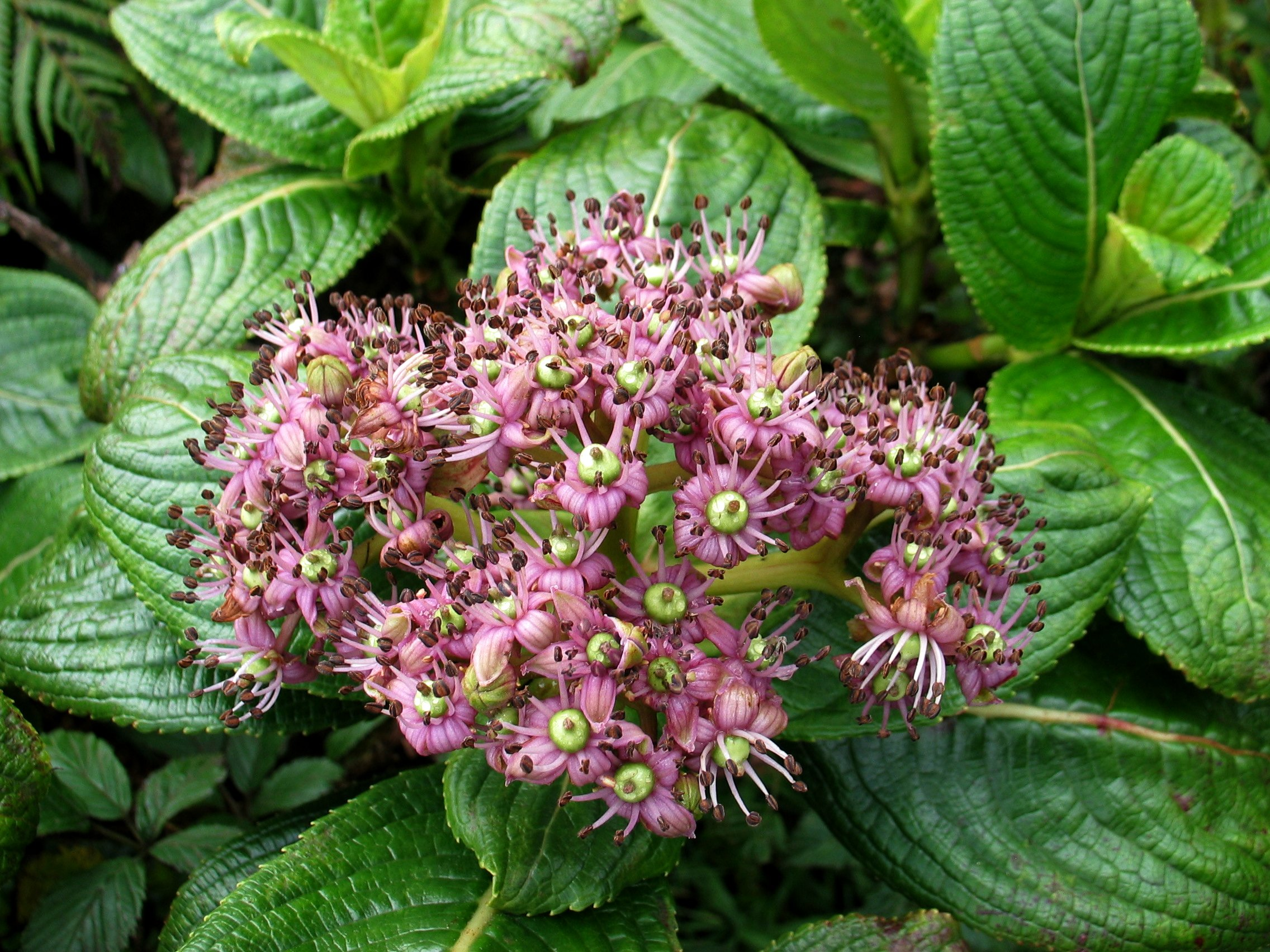 Kanawao Hydrangeaceae Endemic genus to the Hawaiian Islands. Mt. Kaʻala, Oʻahu These are staminate (male) flowers. The fruits and flowers were eaten by early Hawaiians. NPH00002